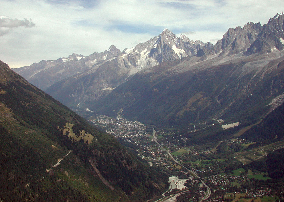 Vallée de Chamonix vue depuis le Sud. Chamonix valley from the south. Photograph by Robin Lacassin, September 2000.